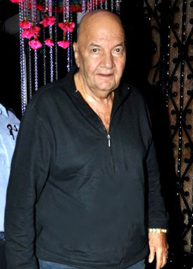 Prem Chopra at Rakesh Roshan's birthday bash.